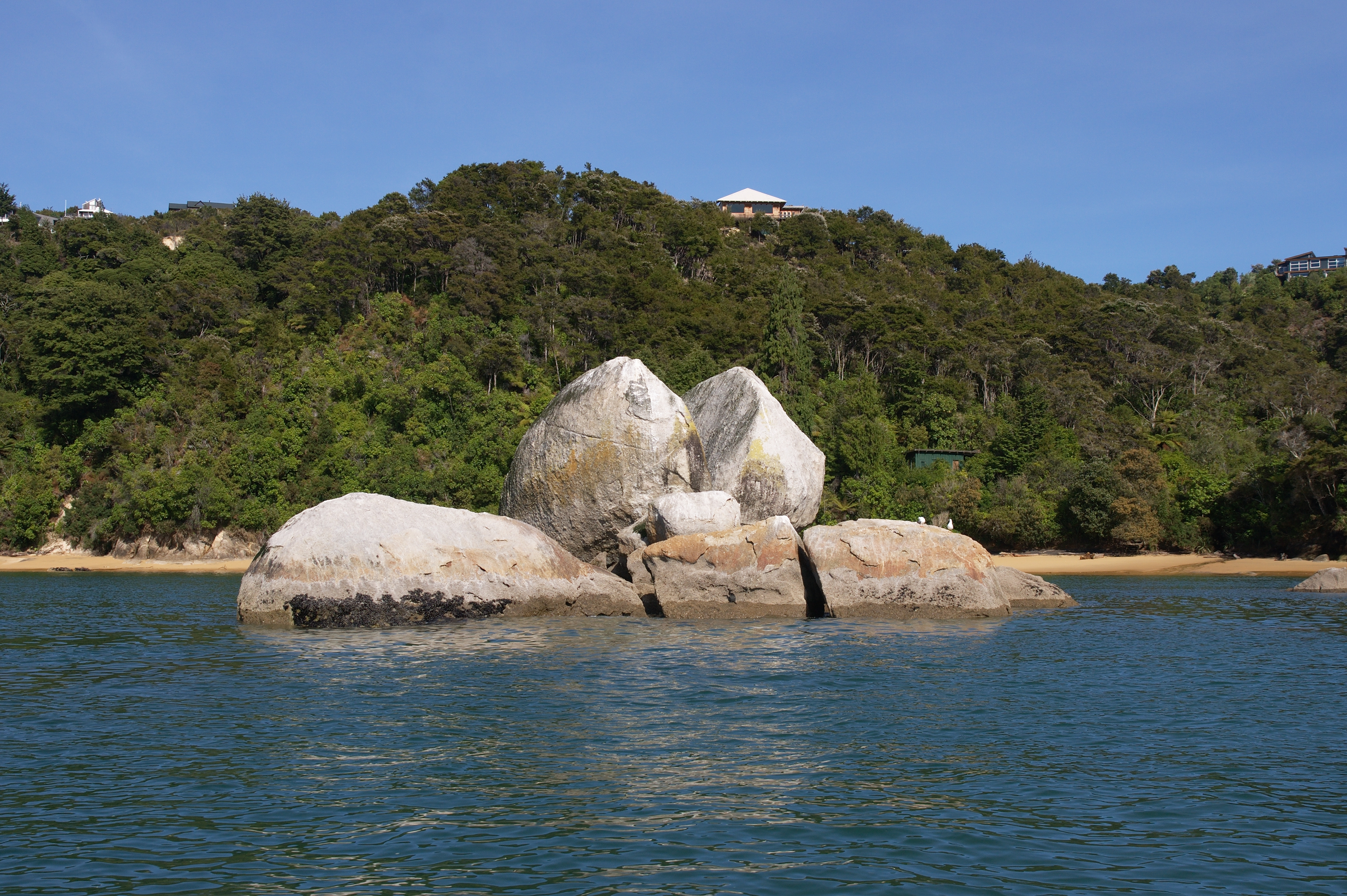 Split Rock. Tasman Bay, South Island, New Zealand.